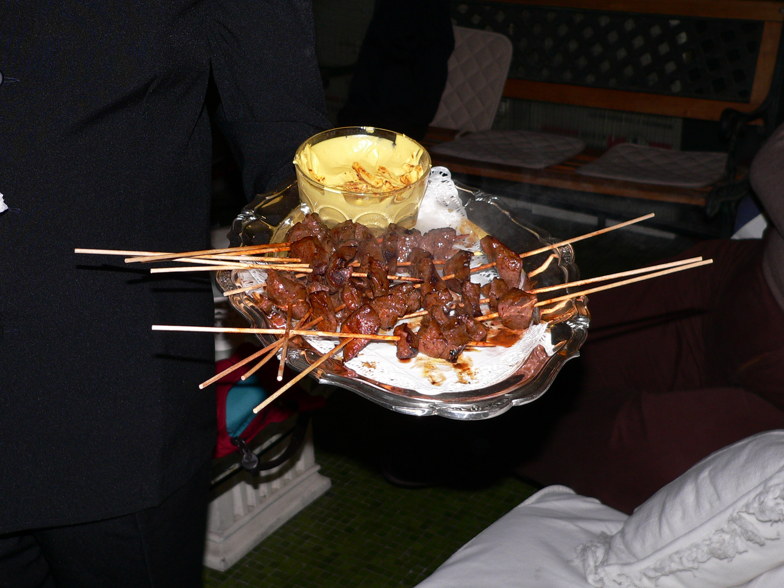 Description: Peruvian cuisine Name: Anticucho Country : Peru Photographer: © Manuel González Olaechea y Franco Shot date : February, 10th , 2007